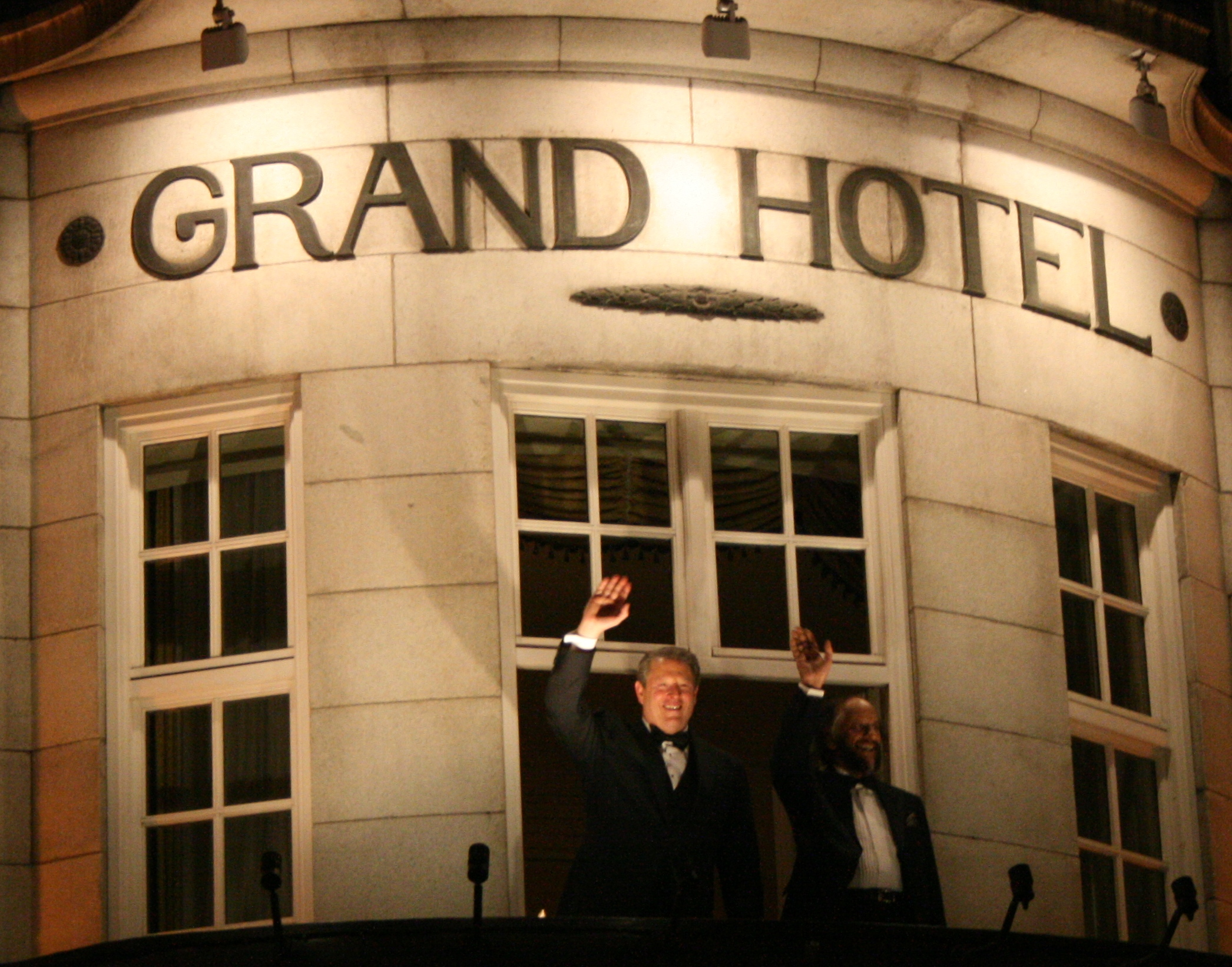 Nobel Peace Price winners Al Gore and Rajendra Pachauri (leader of IPCC) on the balcony of Grand Hotel, Oslo, Norway, December 10TH, 2007.